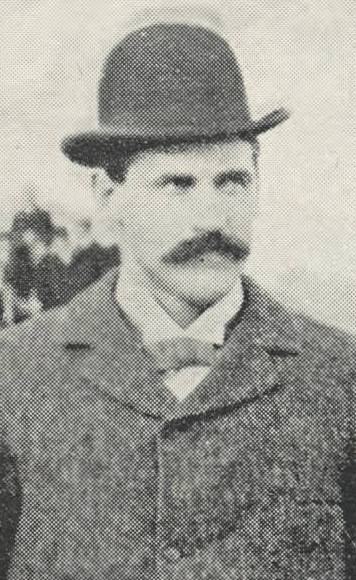 D M Balliet